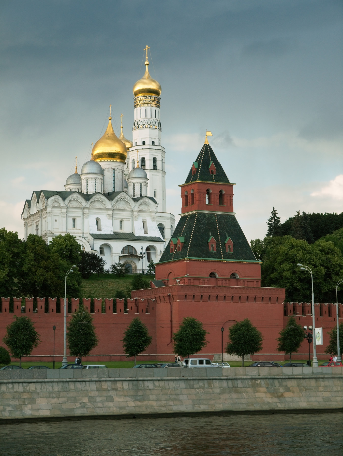 Moscow Kremlin, thunderstorm brewing